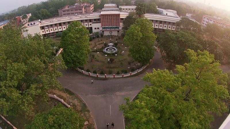 BIT sindri campus taken through drone